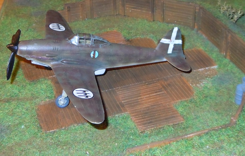 Model of the Caproni-Vizzola F.4 More pics of the same model can be found at